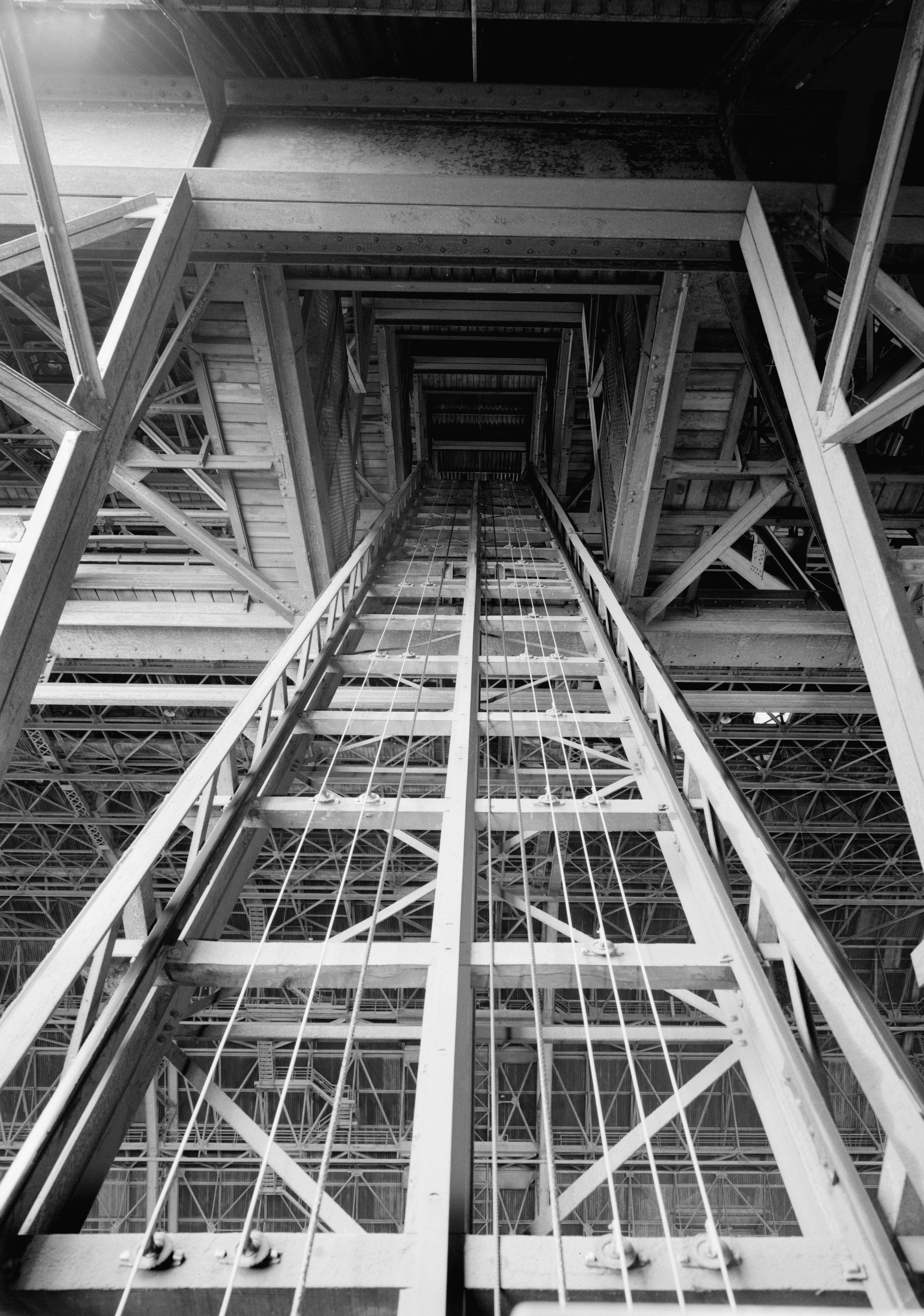 Goodyear Airdock, 1210 Massillon Road, Akron, Summit County, OH